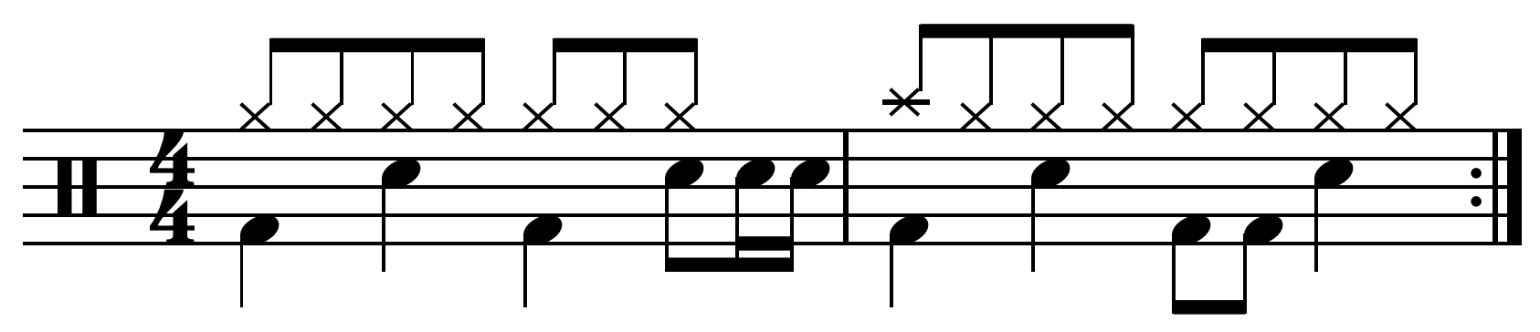 Fill with groove number 2 and crash